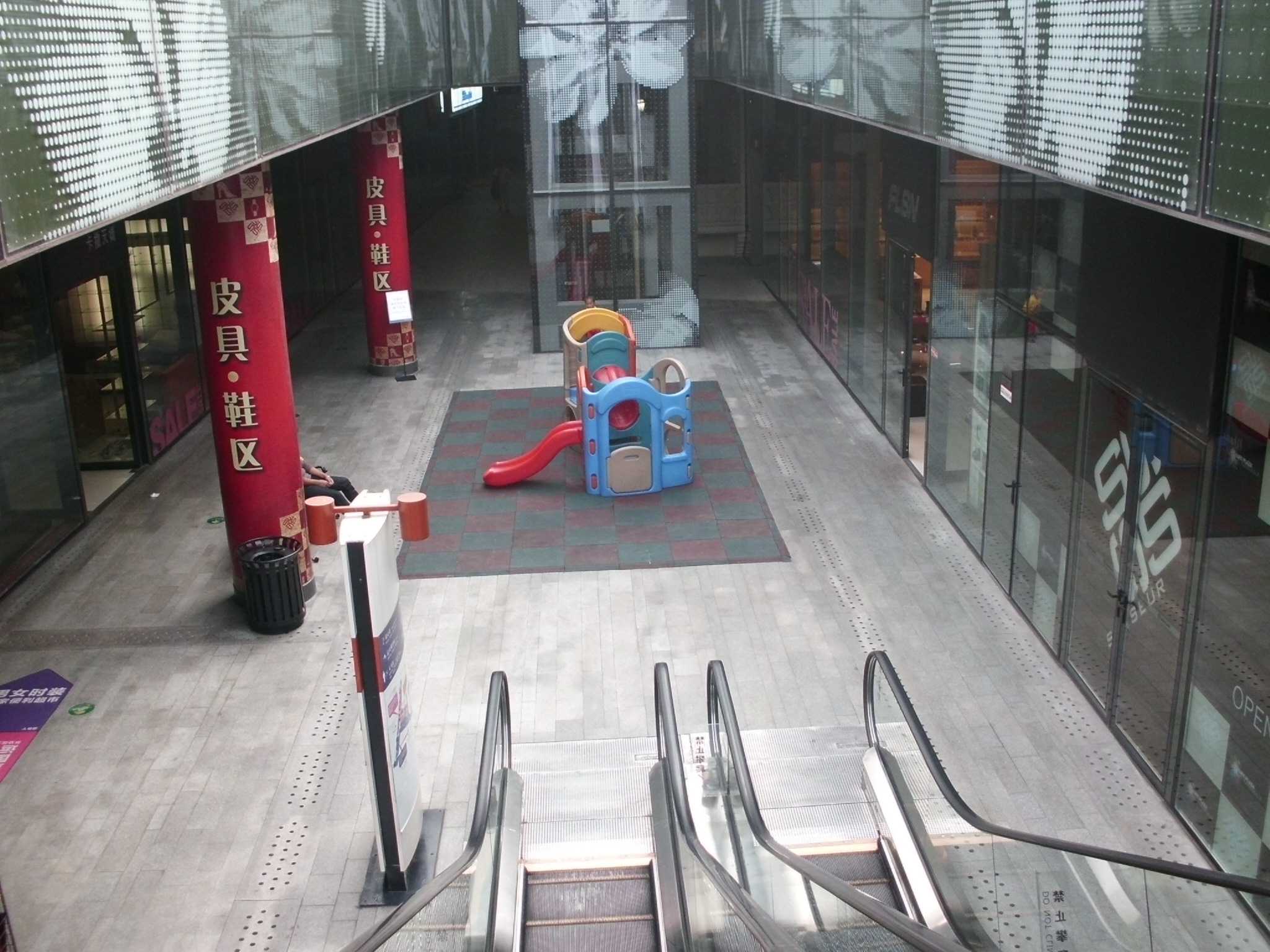 sasseur life plaza